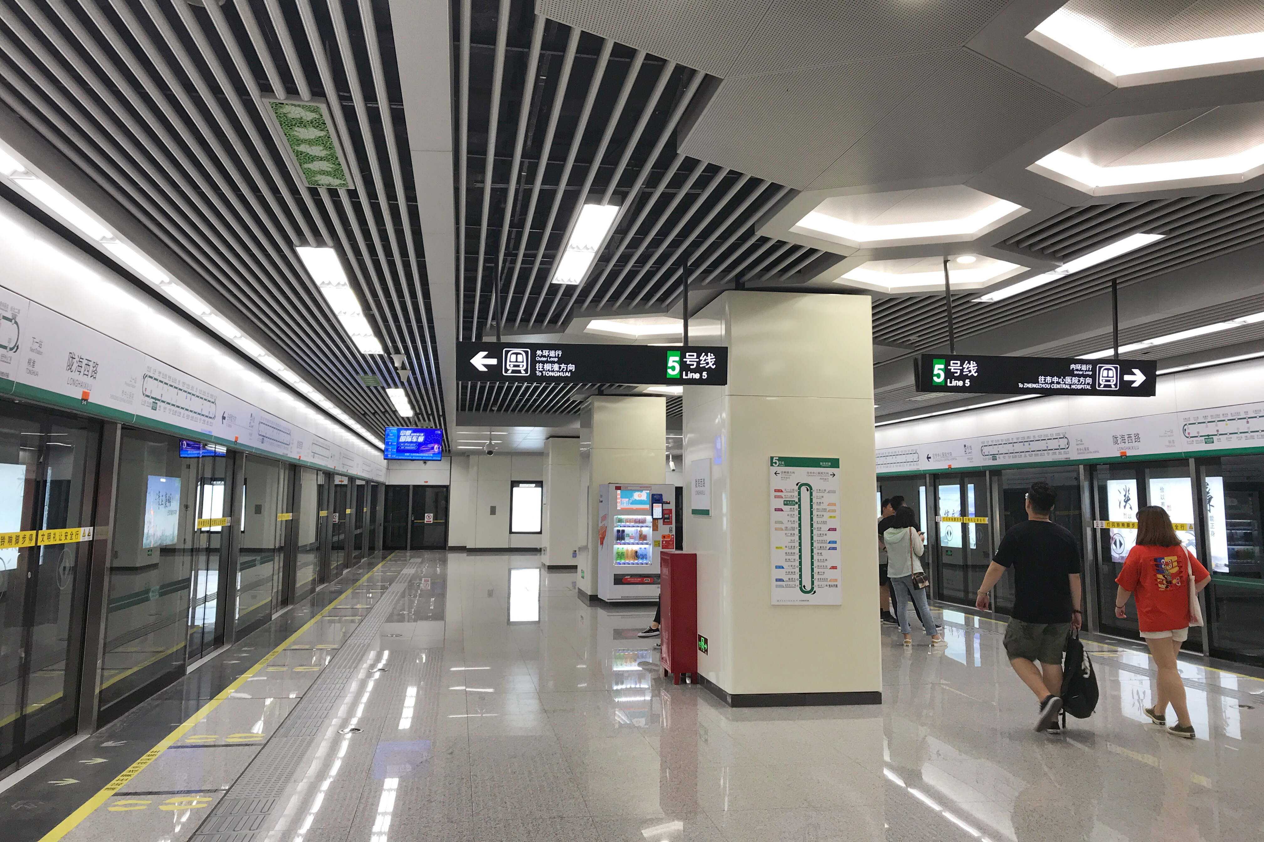 Platforms of Zhengzhou Metro Longhaixilu Station